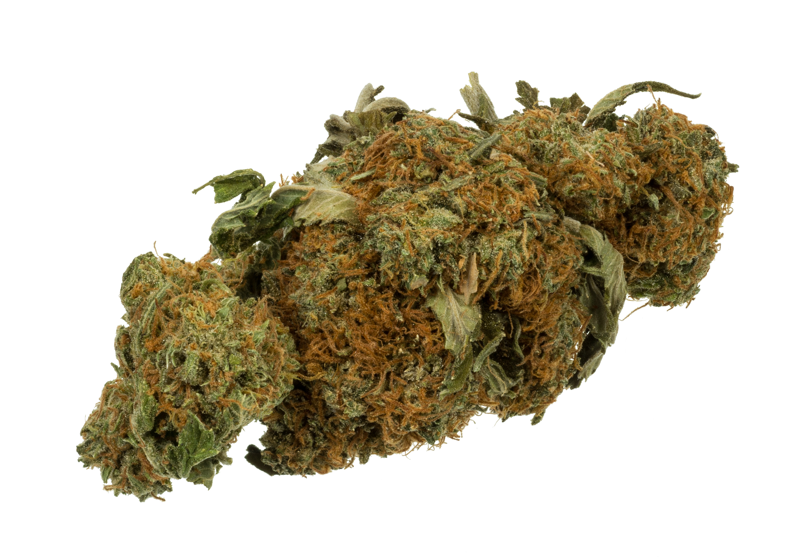 A dried flower bud of the Cannabis plant. The cannabis' flowers contain many different psychoactive compounds that are used for recreational or medicinal purposes. The plant goes by many different names: marijuana, pot, weed, dope, Mary Jane, etc. The bud is usually either crumbled up and smoked or mixed with food into an edible. This picture shows a gram of bud, roughly the size of a human thumb, which would be bought in a "dime bag". The cannabis pictured would likely be classified as mid grade sinsemillia (Spanish for "without seeds,") and might have been grown hydroponically.